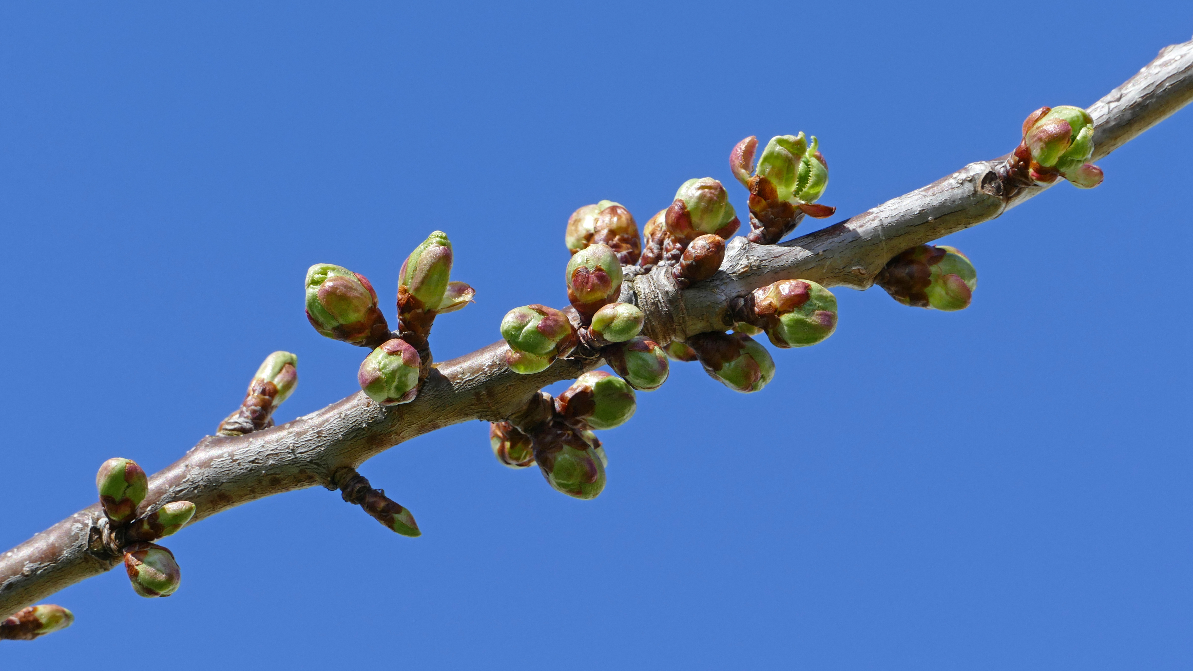 Buds on branches of a cherry tree (Prunus sect. Cerasus), Gåseberg, Lysekil municupality, Sweden.